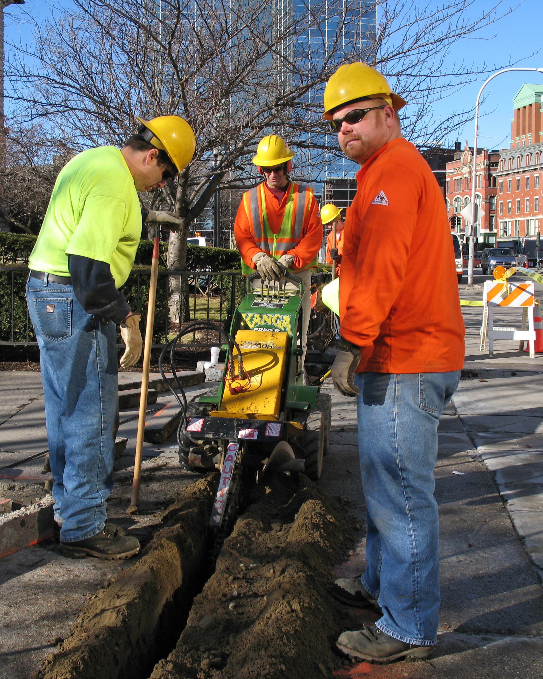 Trenching for a fiber optic installation in Worcester, Massachusetts